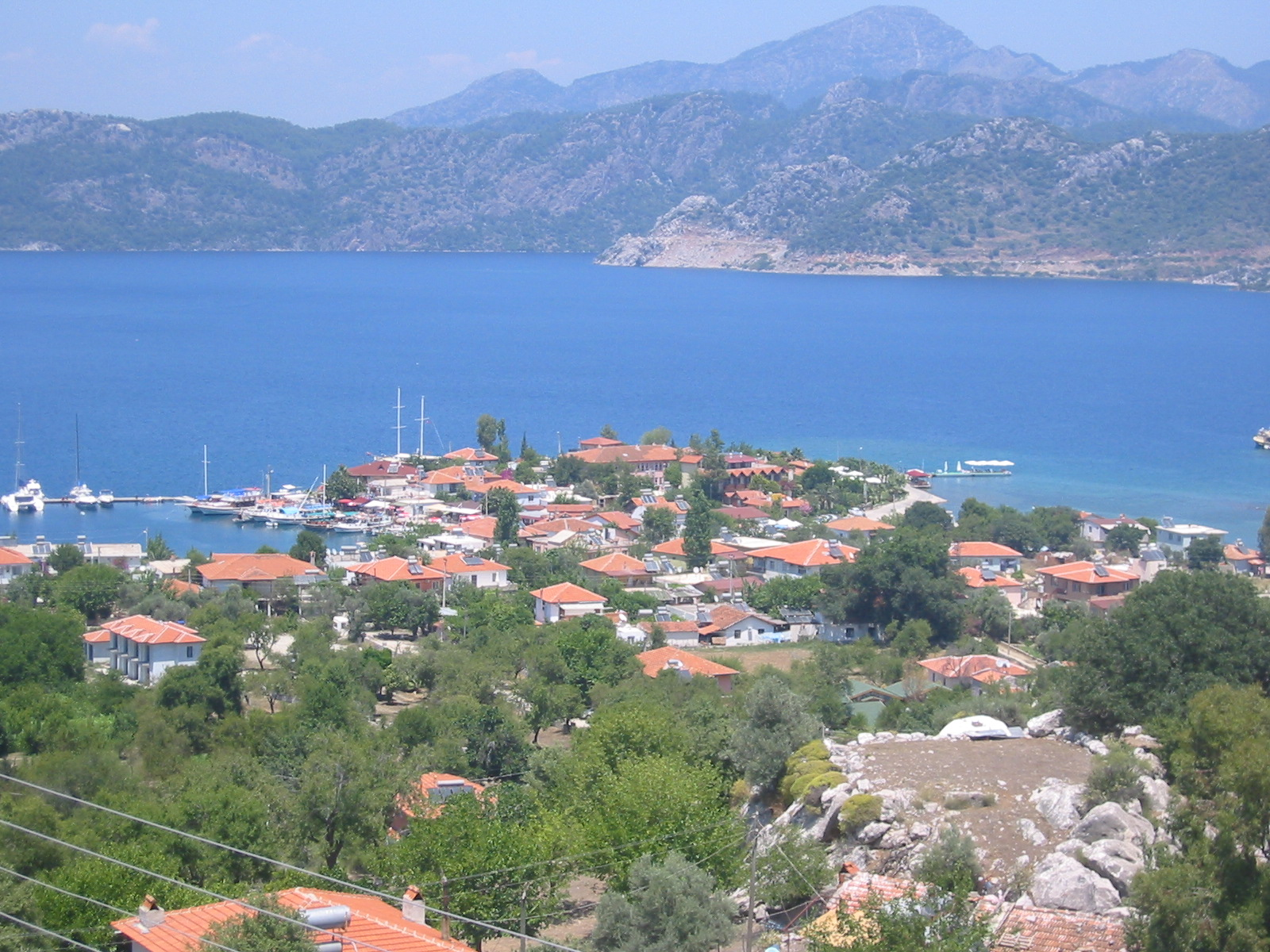 Selimiye village, Marmaris, Muğla, Turkey